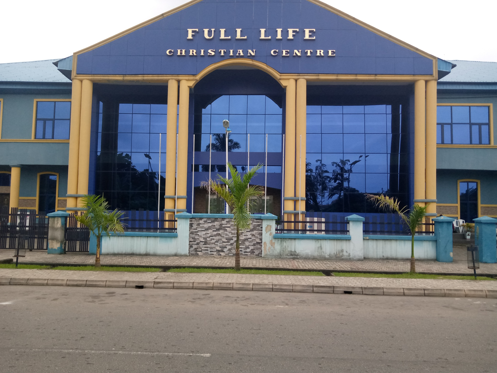 Front view of Full Life Christian Centre headquarters, Uyo, Nigeria